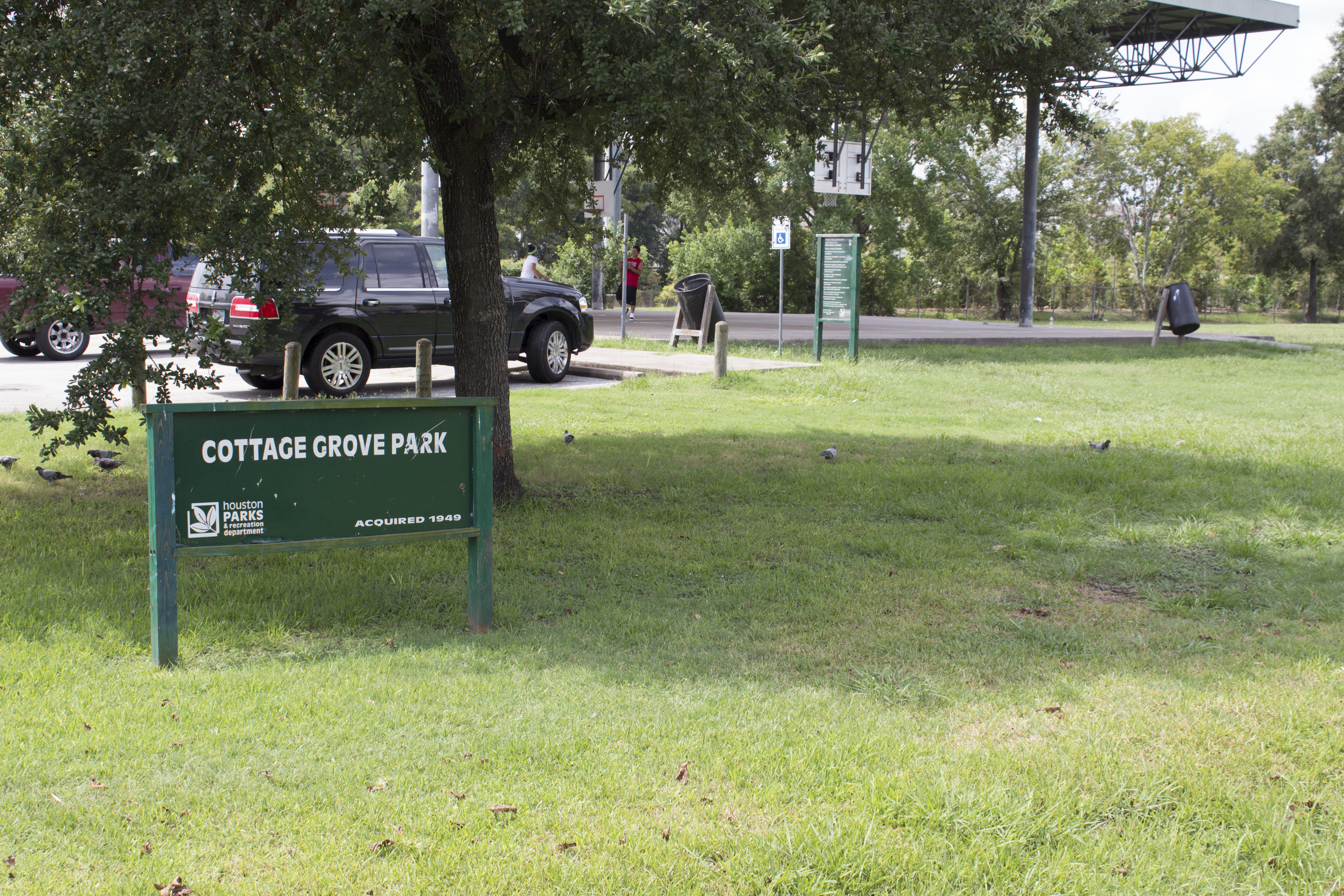 Cottage Grove Park, 900 Bagby Street A view of Cottage Grove Park including the baseball field